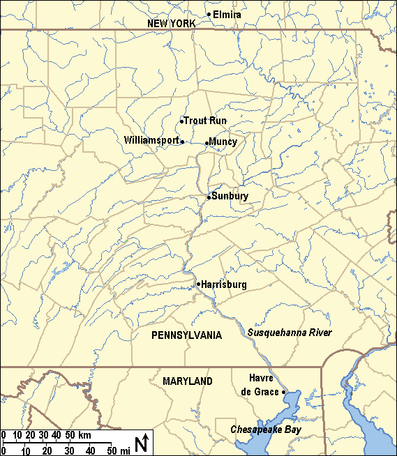 Map of Daniel Hughes' Underground Railway path in Pennsylvania, Maryland and New York in the United States